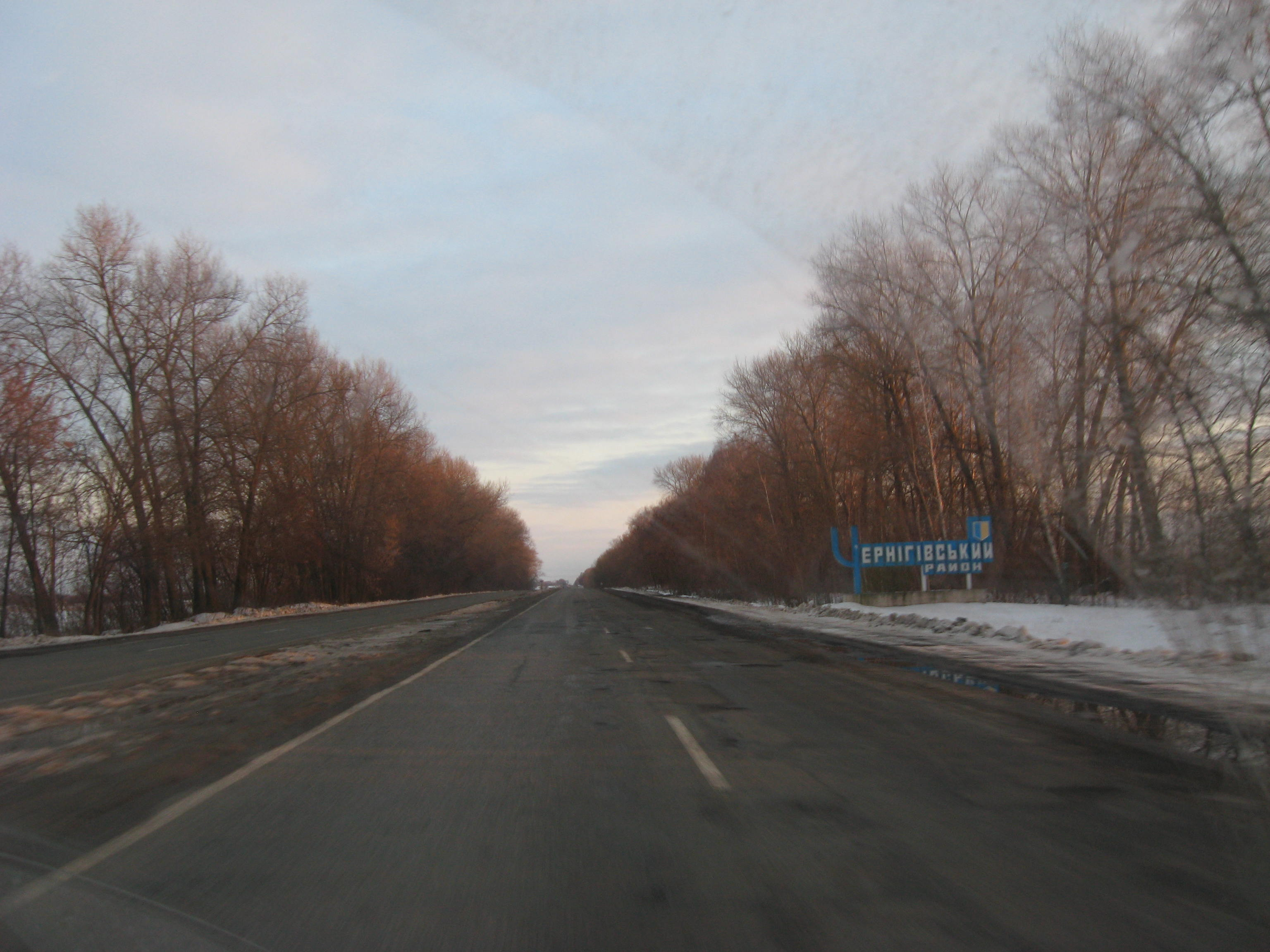 Highway M01, (european E95) in Chernihiv Oblast, Ukraine